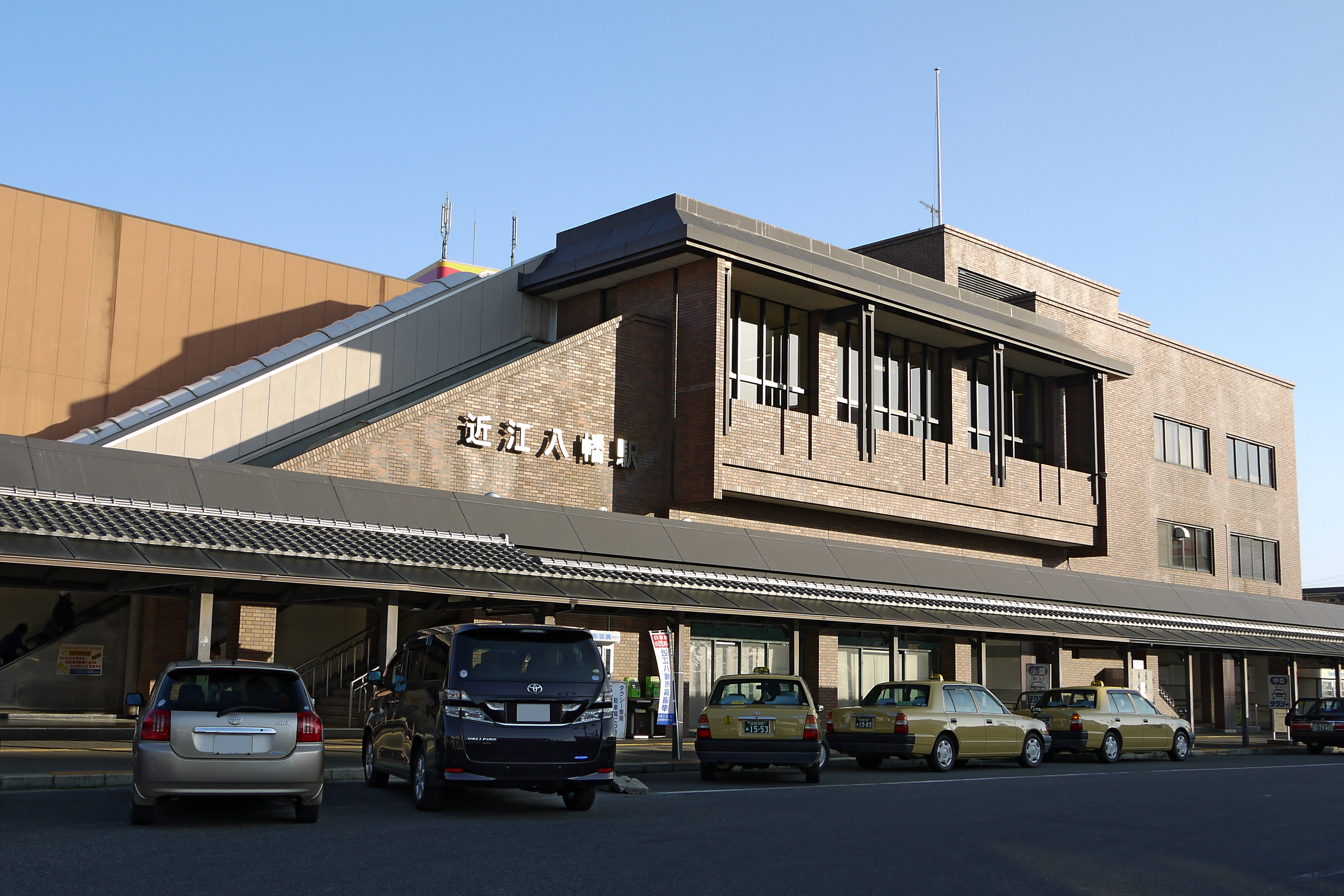 Omihachiman Station in Omihachiman, Shiga prefecture, Japan